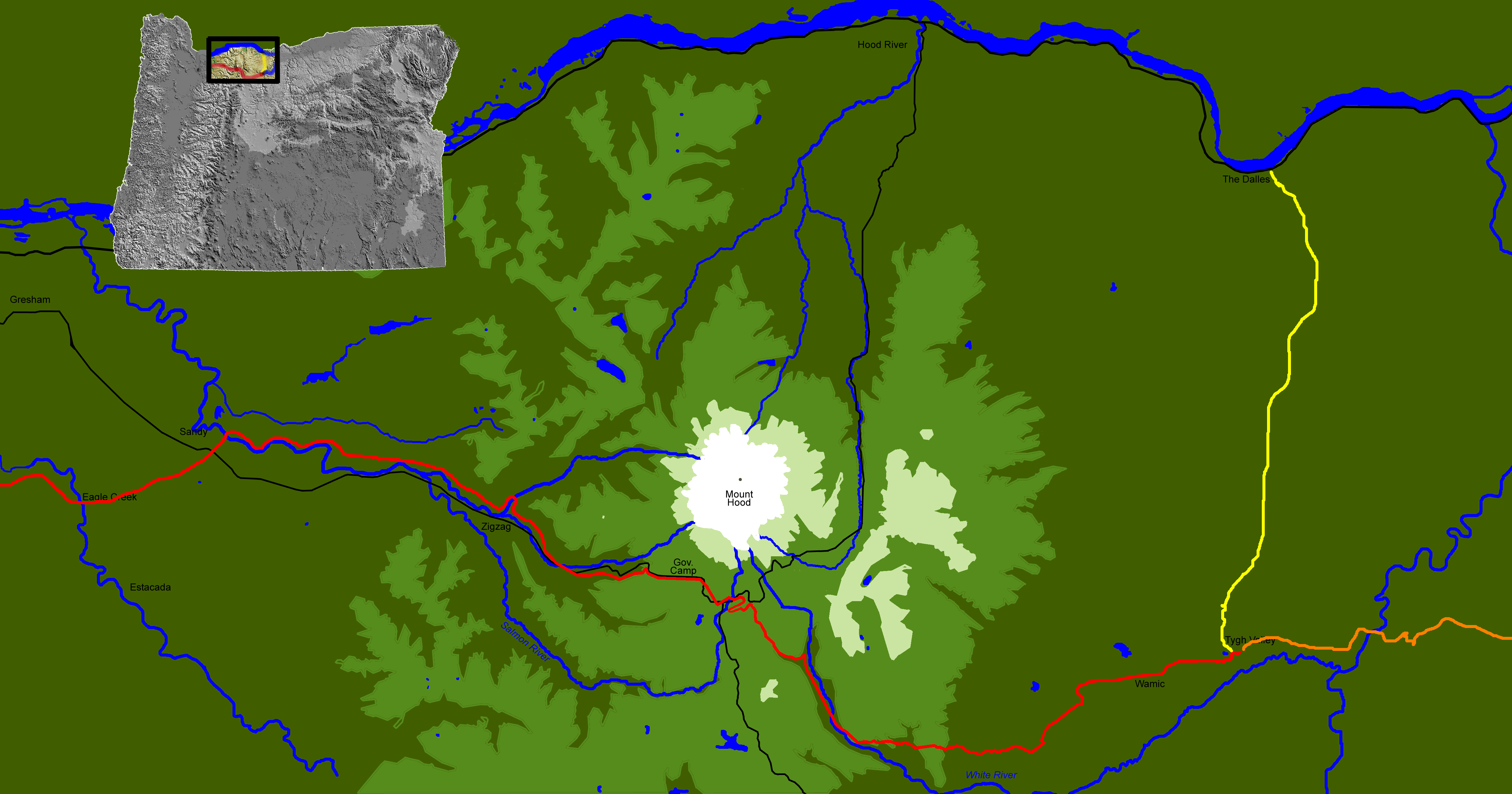 Route of Barlow Road in red over Mount Hood. The original diversion from The Dalles is shown in yellow. Dark green is land elevation below 1000m (3280 ft), medium green is 1000–1500m (–4920 ft), lime green is above 1500m, except white which is glaciated areas to 3425m. Hwy 35 and US Route 26 are shown in black for reference.